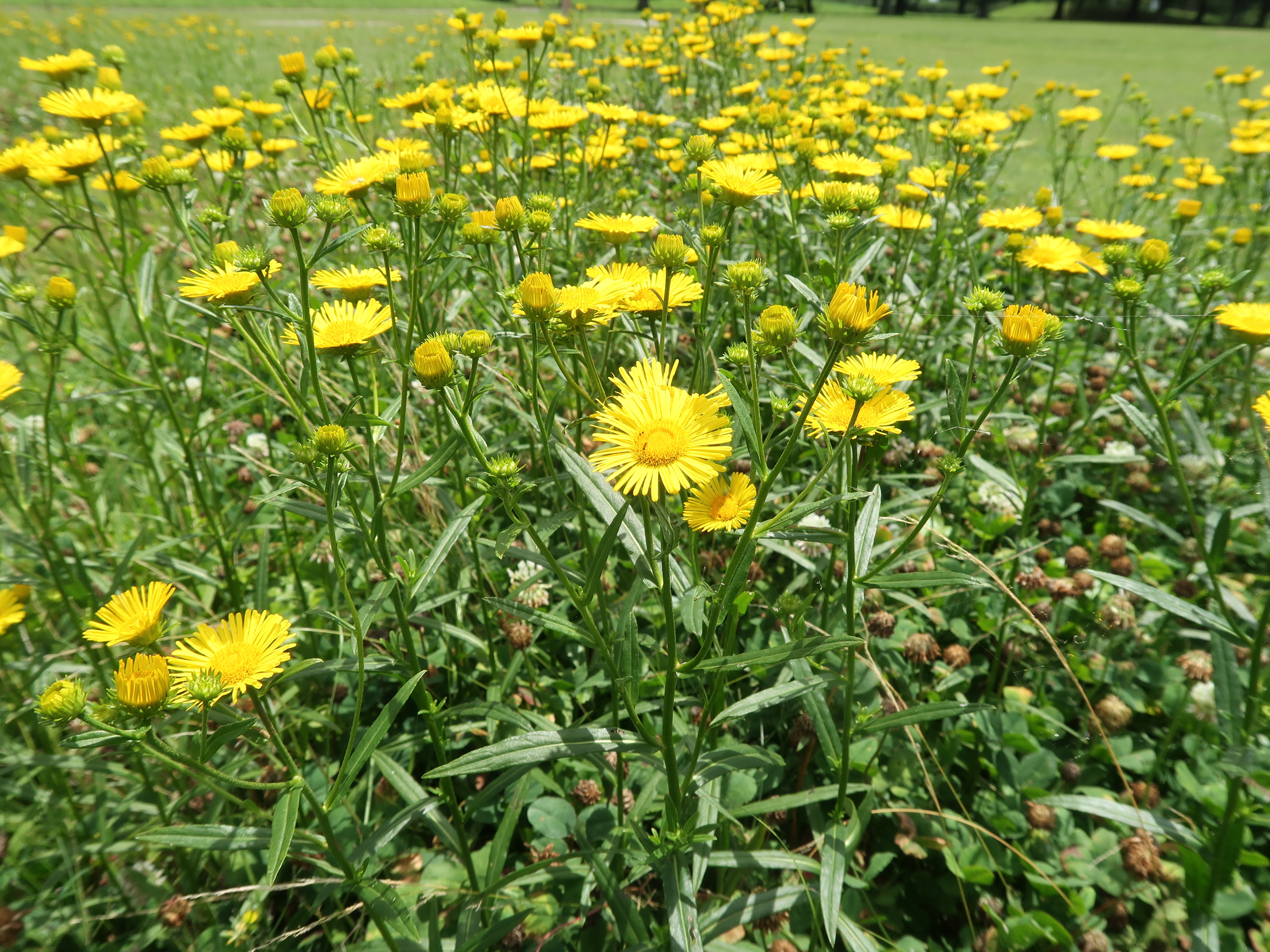 Inula linariifolia, Watarase-yusuichi, Tochigi pref., Japan